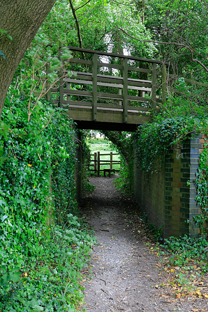 Footpath passing under the Meon Valley Trail as it approaches Fry's Lane, Meonstoke. The Trail follows the old railway line.